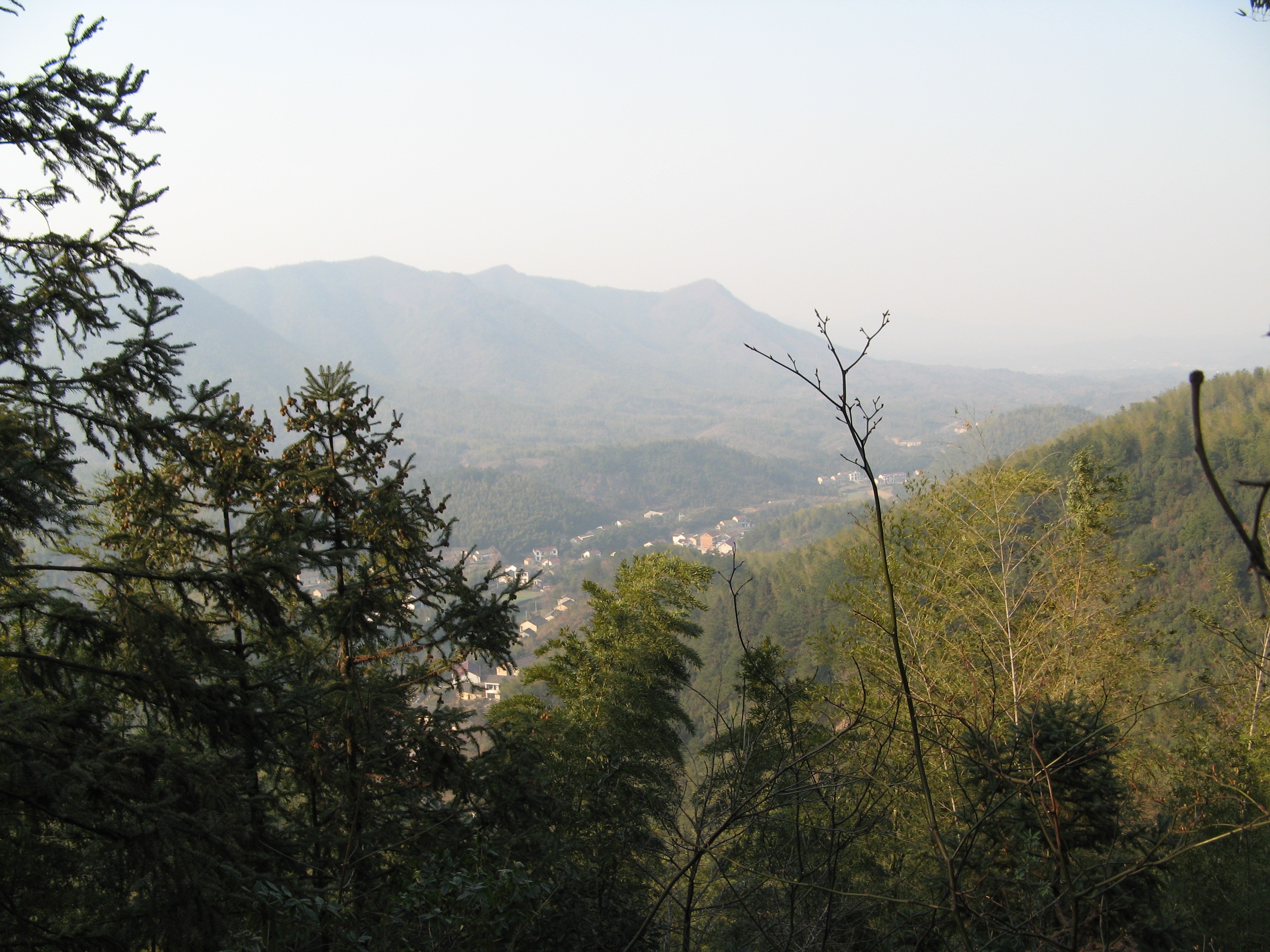 Landscape in Guangde County, Anhui, China